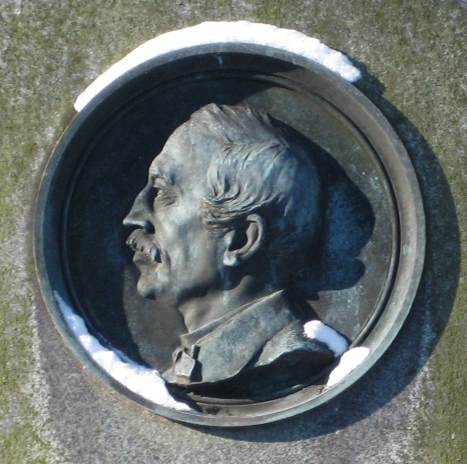 A portrait relief of Axel Nyblæus (1821-1899), swedish philosopher. Picture taken at Norra kyrkogården in Lund, Sweden 2009 by the uploader.